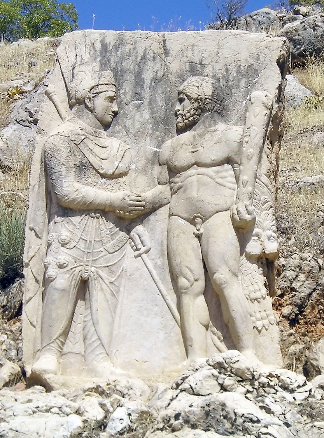 Nemrut Dag area, Antiochus I of Commagene and Herakles, relief in Arsameia